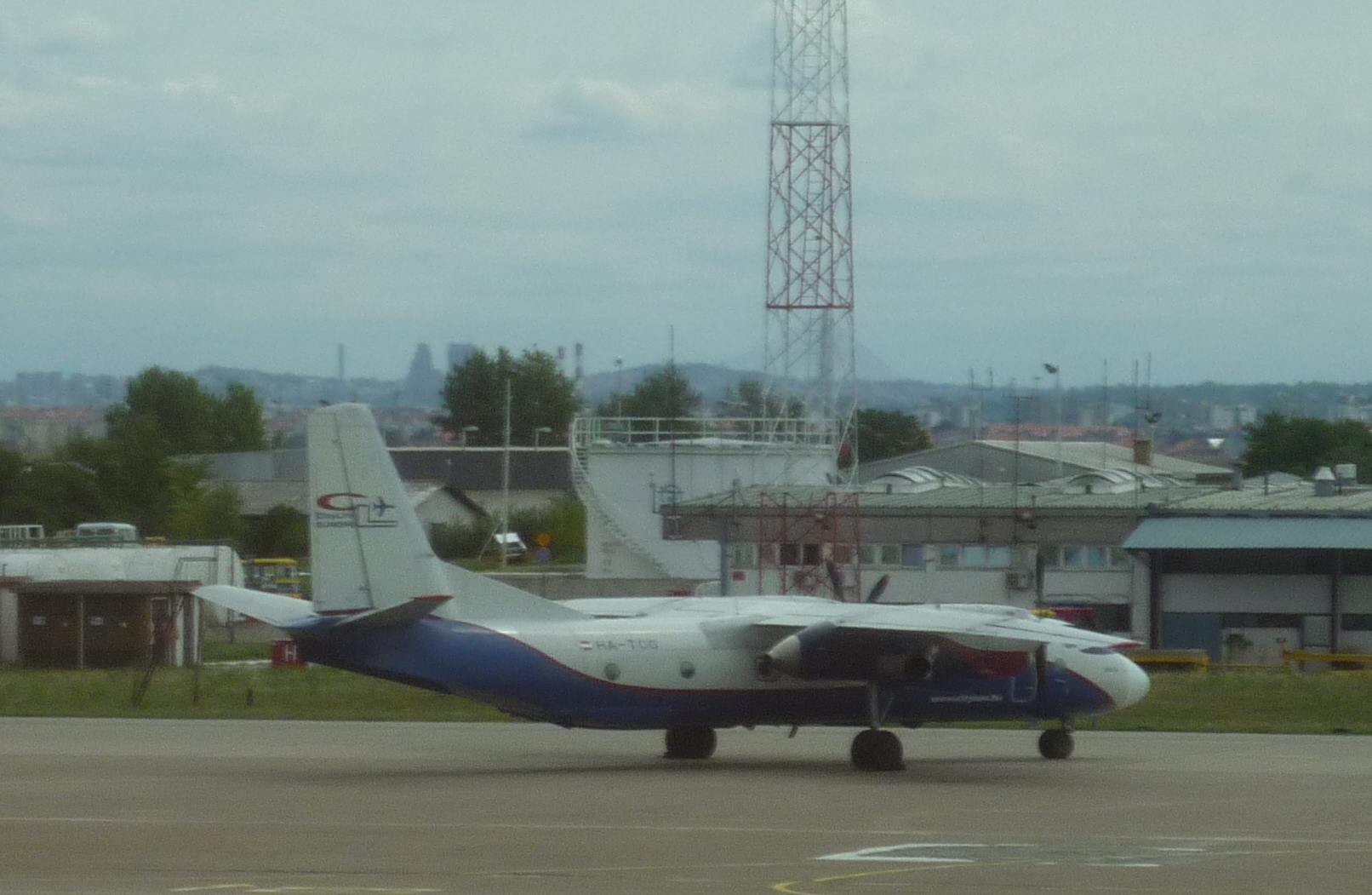 CityLine Hungary Antonov AN-26B( HA-TCO) at Belgrade Airport, Serbia.